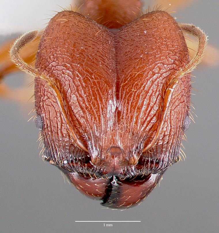 Head view of ant Pheidole speculifera specimen casent0003237.